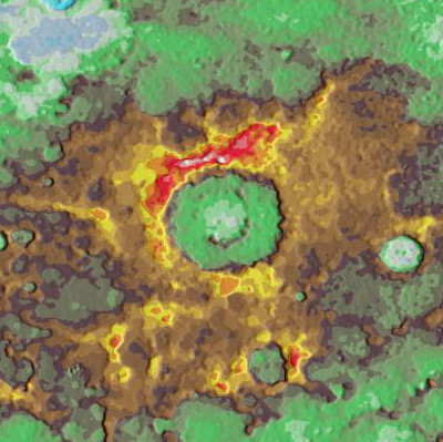 Topographic map of Raditladi Basin and surrounding area on Mercury. Blue is low and red is high.